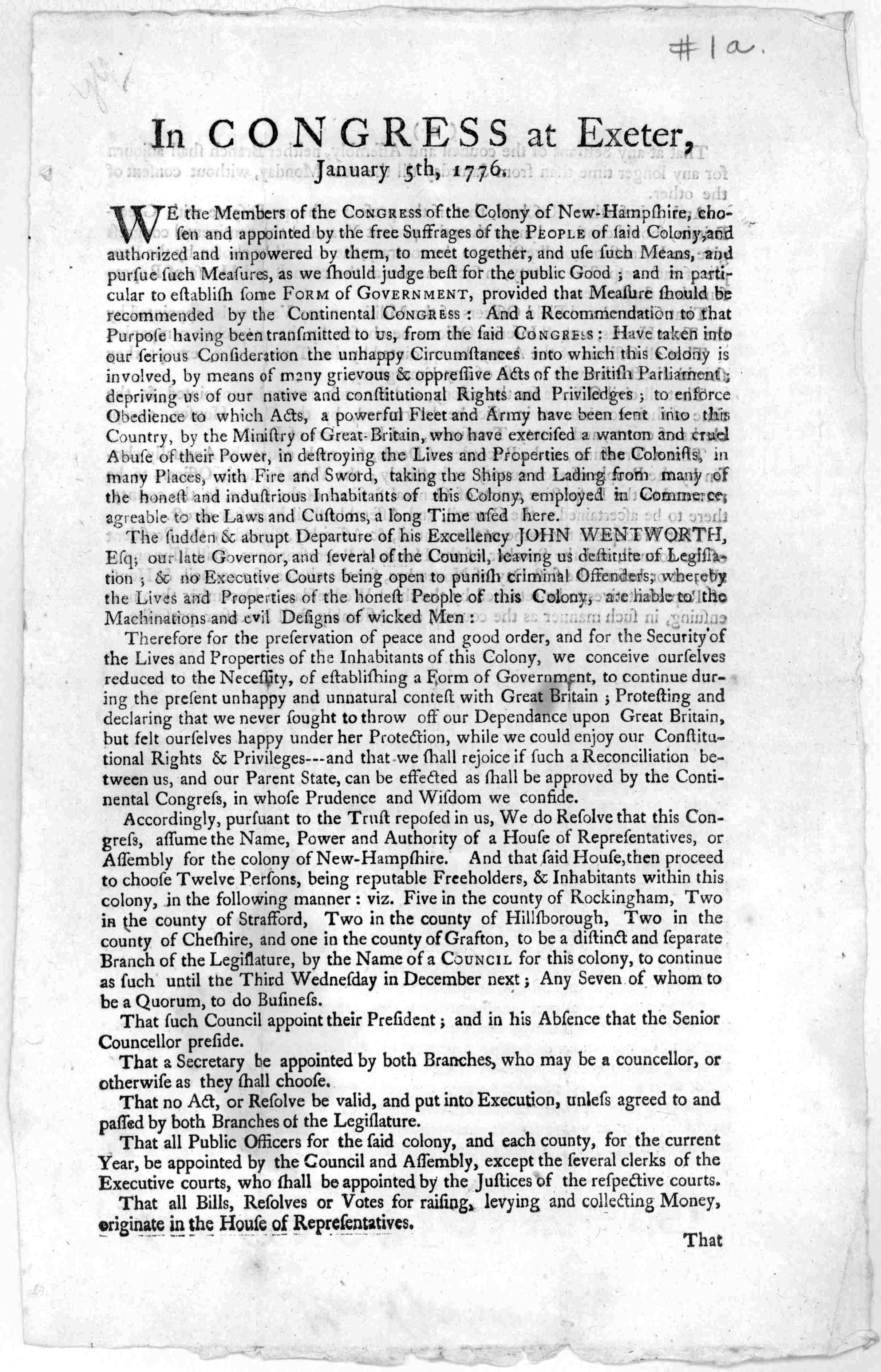 Photograph of the statement of purpose of the Congress of the Colony of New Hampshire, January 5, 1776, chosen and appointed by the free suffrages of the people of the said colony. Printed at Portsmouth, New Hampshire. References the sudden departure of Governor John Wentworth. Courtesy of The Library of Congress, Washington, D.C. Note that the name is misnomer; this is not a broadside, being printed on both sides and multiple pages.